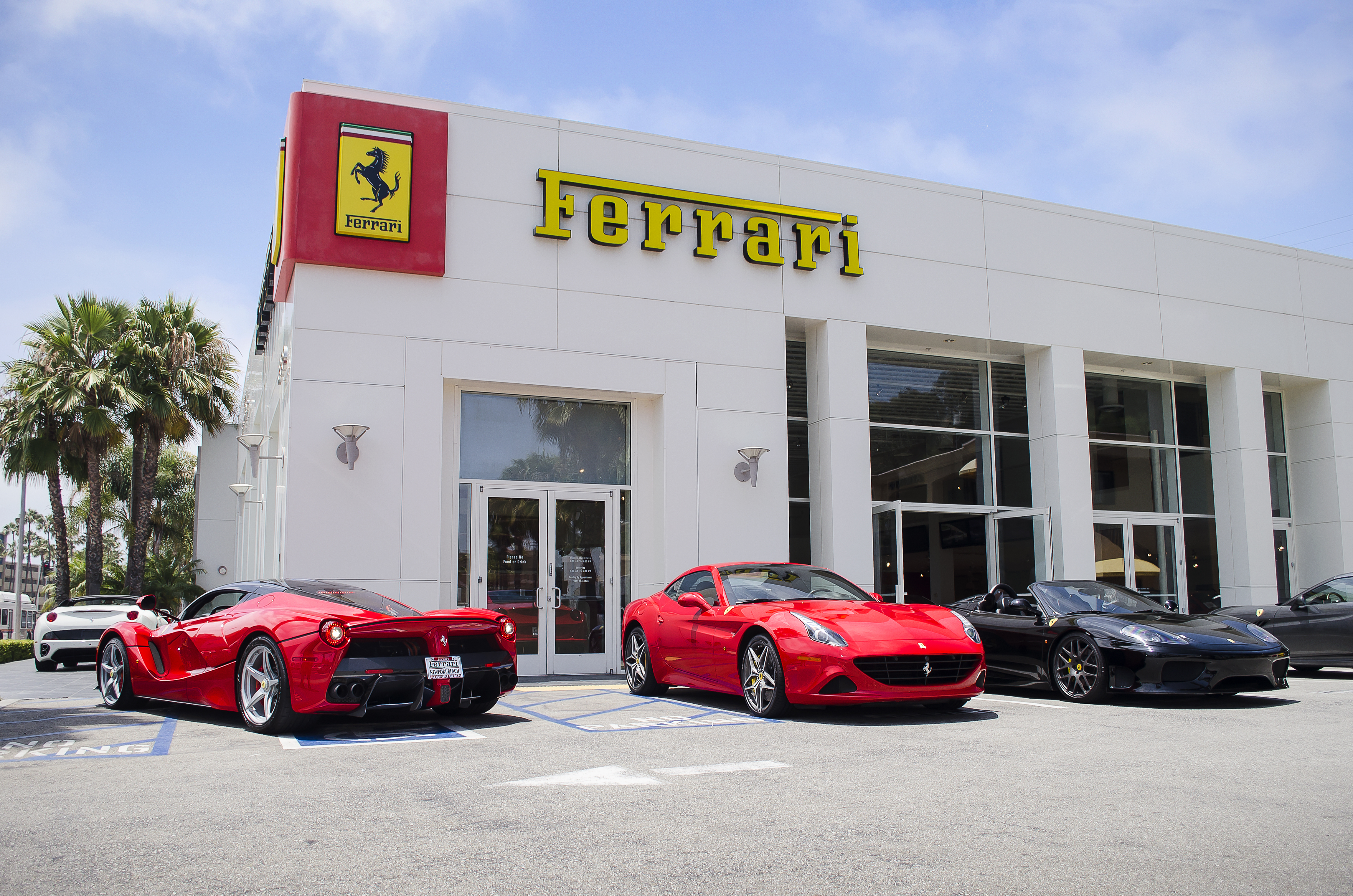 Some Ferrari at Ferrari of Newport Beach